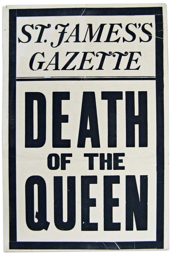 Newspaper bill from 1901 announcing the death of Queen Victoria of United Kingdom.